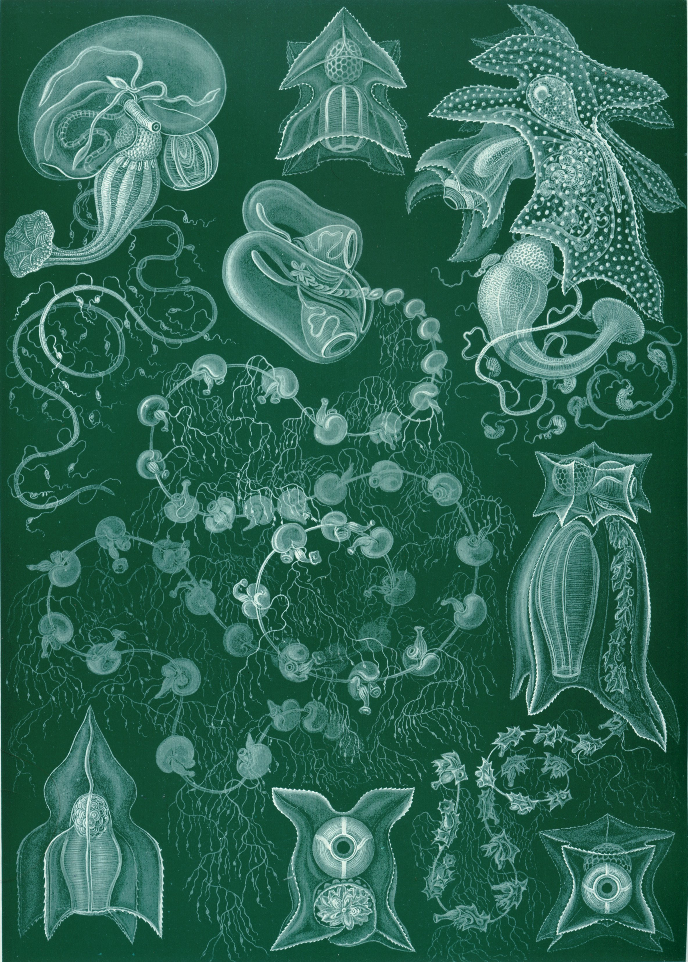 (center): Praya galea (Haeckel) = Rosacea cymbiformis (delle Chiaje, 1830), colony (top left): Praya galea (Haeckel) = Rosacea cymbiformis (delle Chiaje, 1830), group of an infertile and a male medusa (right): Bassia obeliscus (Haeckel) = Bassia bassensis Quoy & Gaimard, 1827, colony (top center): Bassia obeliscus (Haeckel) = Bassia bassensis Quoy & Gaimard, 1827, upper bell from above (bottom right): Bassia obeliscus (Haeckel) = Bassia bassensis Quoy & Gaimard, 1827, upper bell inside (bottom center): Bassia obeliscus (Haeckel) = Bassia bassensis Quoy & Gaimard, 1827, lower bell from below (top right): Bassia obeliscus (Haeckel) = Bassia bassensis Quoy & Gaimard, 1827, group of an infertile and a male medusa (bottom left): Bassia obeliscus (Haeckel) = Bassia bassensis Quoy & Gaimard, 1827, female medusa